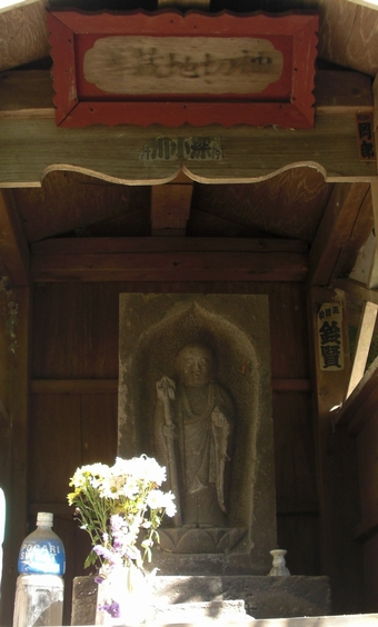 Sodekiri-jizo (Ninomiya, Kanagawa, Japan)